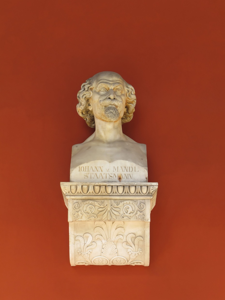 Munich, Hall of Fame, Bust of "Johann v. Mandl" (Poltican)